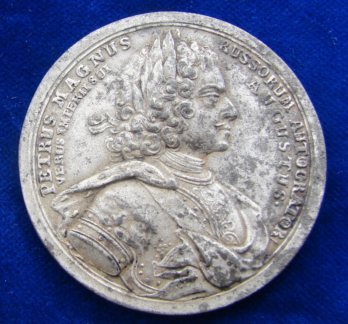 Fe- Medallion diameter: 49 mm.